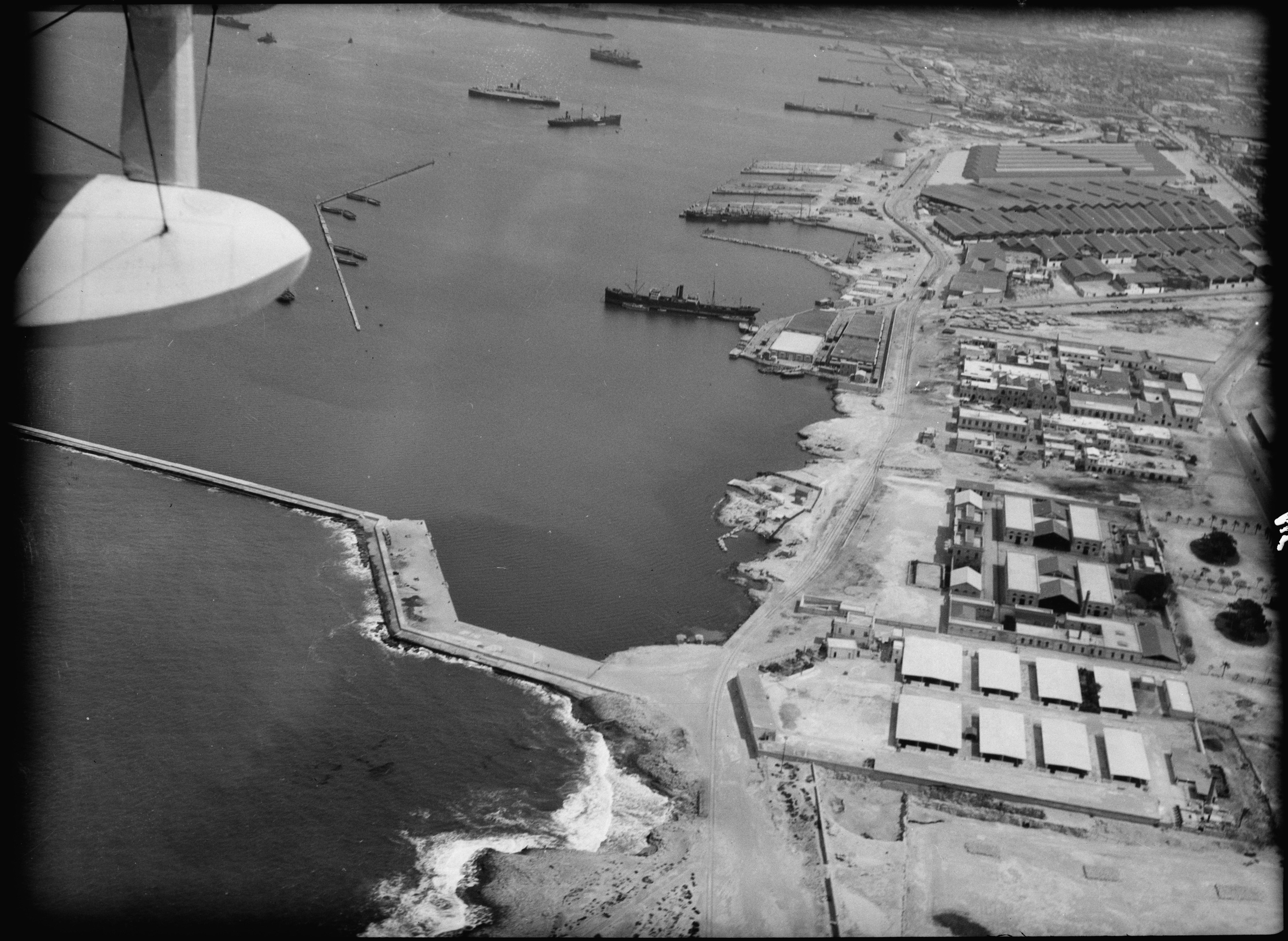 Title: Air views of Palestine. Alexandria harbour. Closer view looking along the quay Abstract/medium: G. Eric and Edith Matson Photograph Collection Physical description: 1 negative